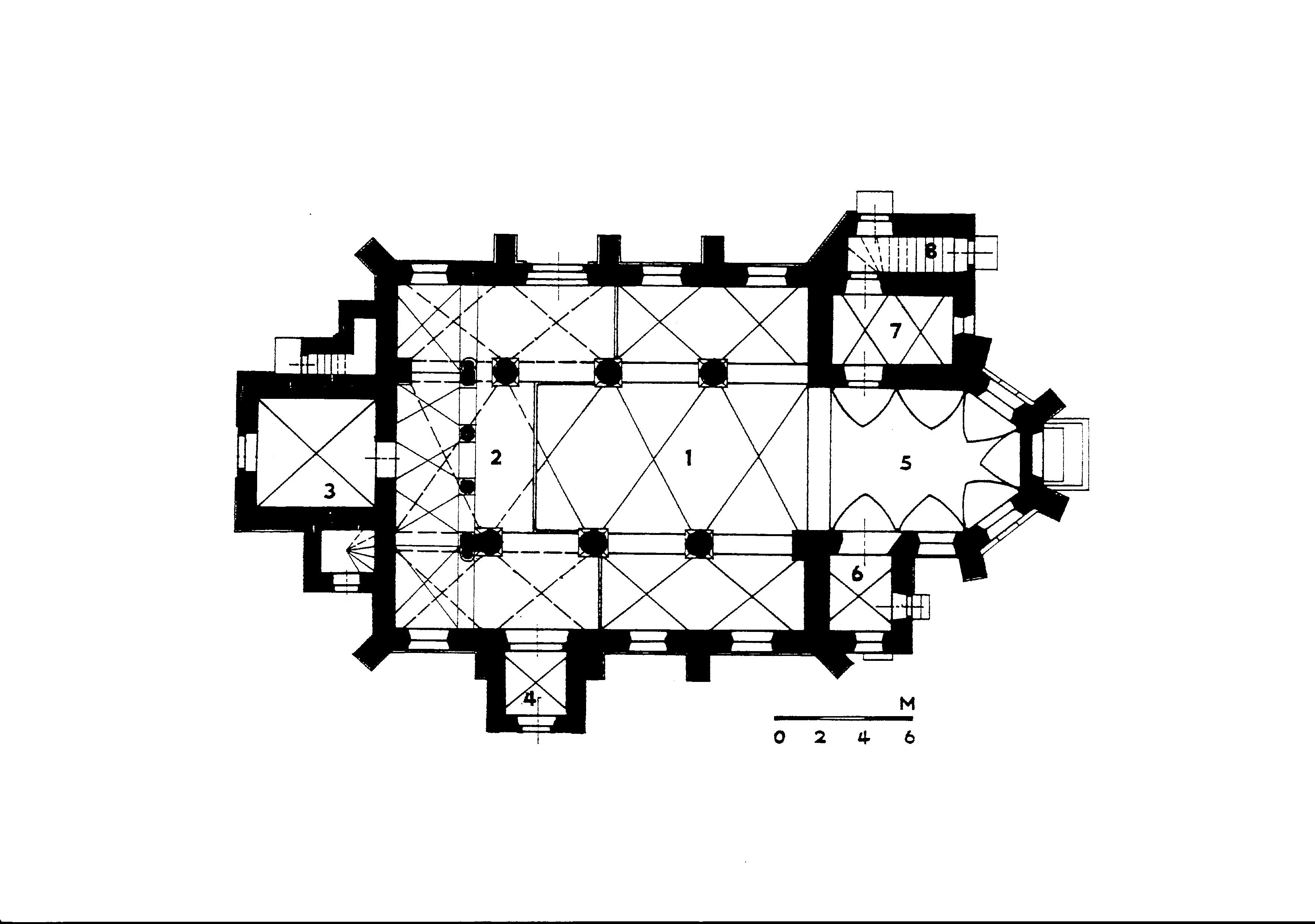 Church of st. Ursulla, Chlumec nad Cidlinou, floor plan